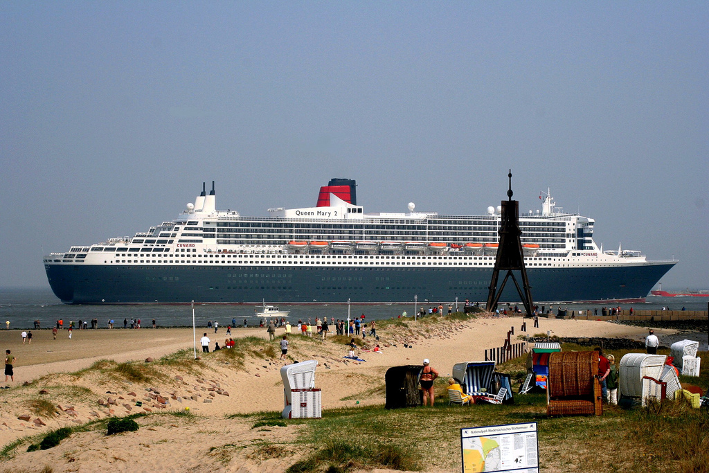 Queen Mary 2 at Cuxhaven, with the Kugelbake in the foreground.